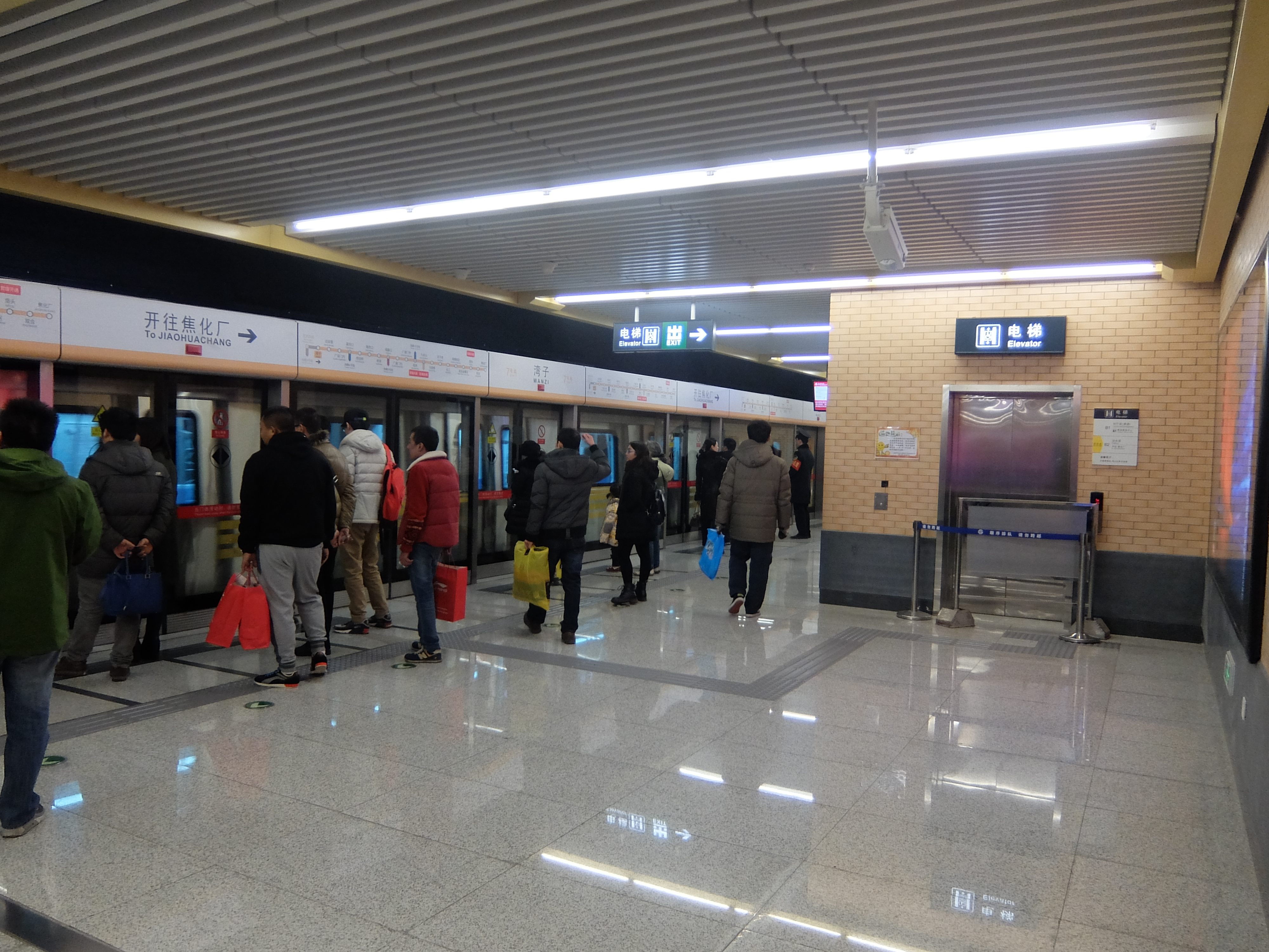 Platform of Wanzi Station on Line 7 of the Beijing Subway